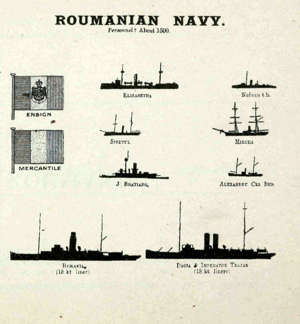 Ship silhouettes of the Romanian fleet, 1914.